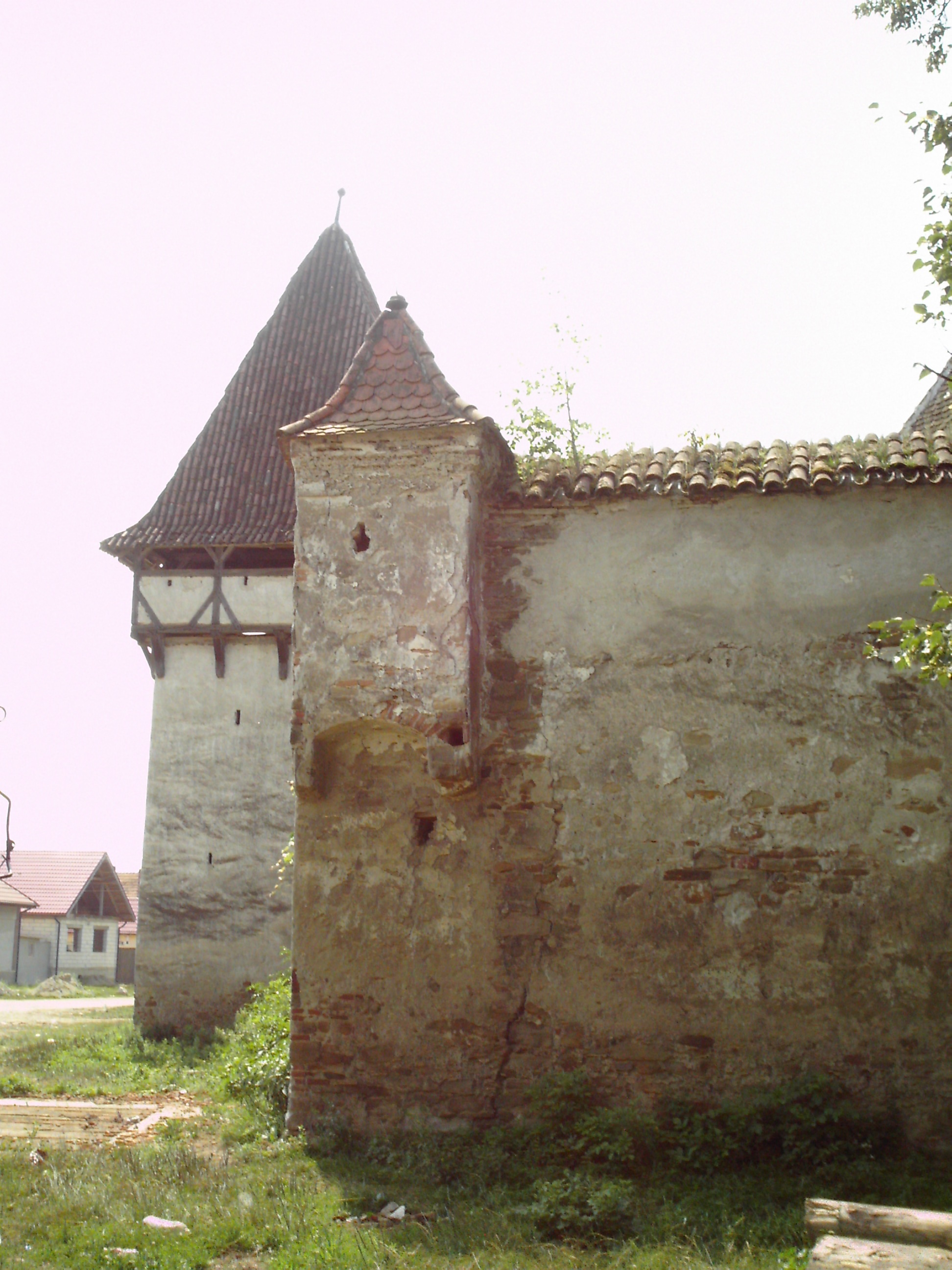 Bartizan on the walls of the Transylvanian Saxon citadel in Cincsor, Romania.